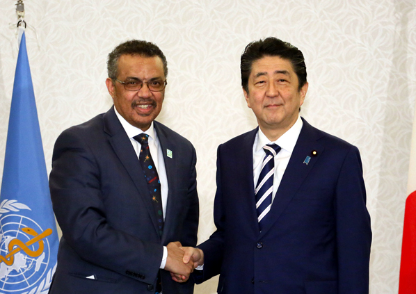 Tedros Adhanom, Director-General of the World Health Organization, met Shinzō Abe, Prime Minister, in Tōkyō Metropolis on December 14, 2017.